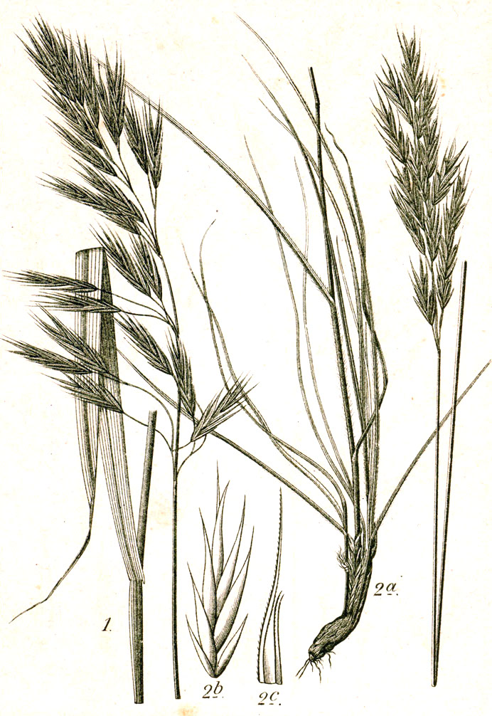 1: Bromus ramosus Huds. s. str., syn. Bromus asper Murray 2: Bromus erectus Huds. Original Caption 1. Wald-Trespe, Bromus asper Murr. 2. Berg-Trespe, B. erectus Huds.